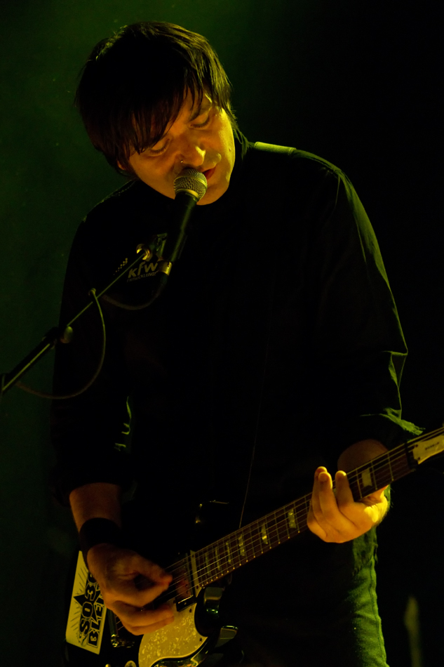 Rodrigo Gonzales Abwärts Grabenhalle 31.10.2009